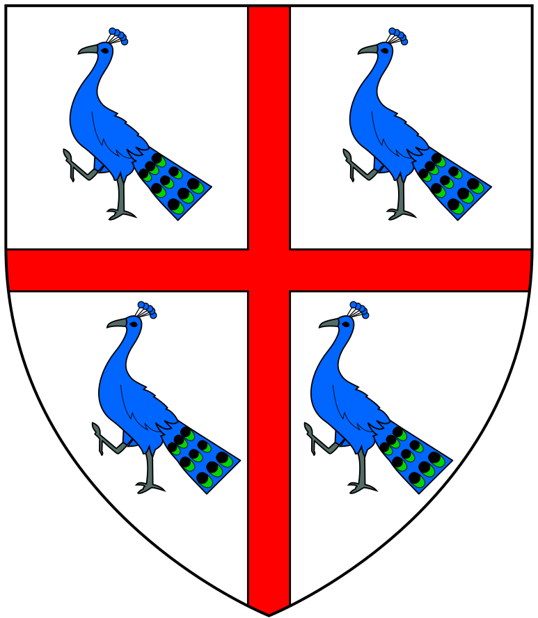 Arms of Smith of Little Beddow, Essex: Argent, a cross gules between three peacocks azure. These arms are visible in North Molton Church, Devon. Edmund I Parker (d.1635) of North Molton married Dorothy Smith, daughter of Clement Smith (c.1515-1552) of Great Baddow in Essex, Lord Treasurer’s Remembrancer in the Exchequer (often erroneously called "Chief Baron of the Exchequer"), MP for Maldon 1545 and 1547, by his wife Dorothy Seymour, youngest daughter of Sir John Seymour (d.1536) of Wulfhall, Wiltshire, and sister of Queen Jane Seymour (d.1537), wife of King Henry VIII.